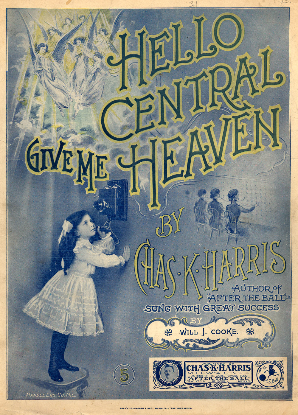 Sheet music cover for "Hello Central, Give Me Heaven"